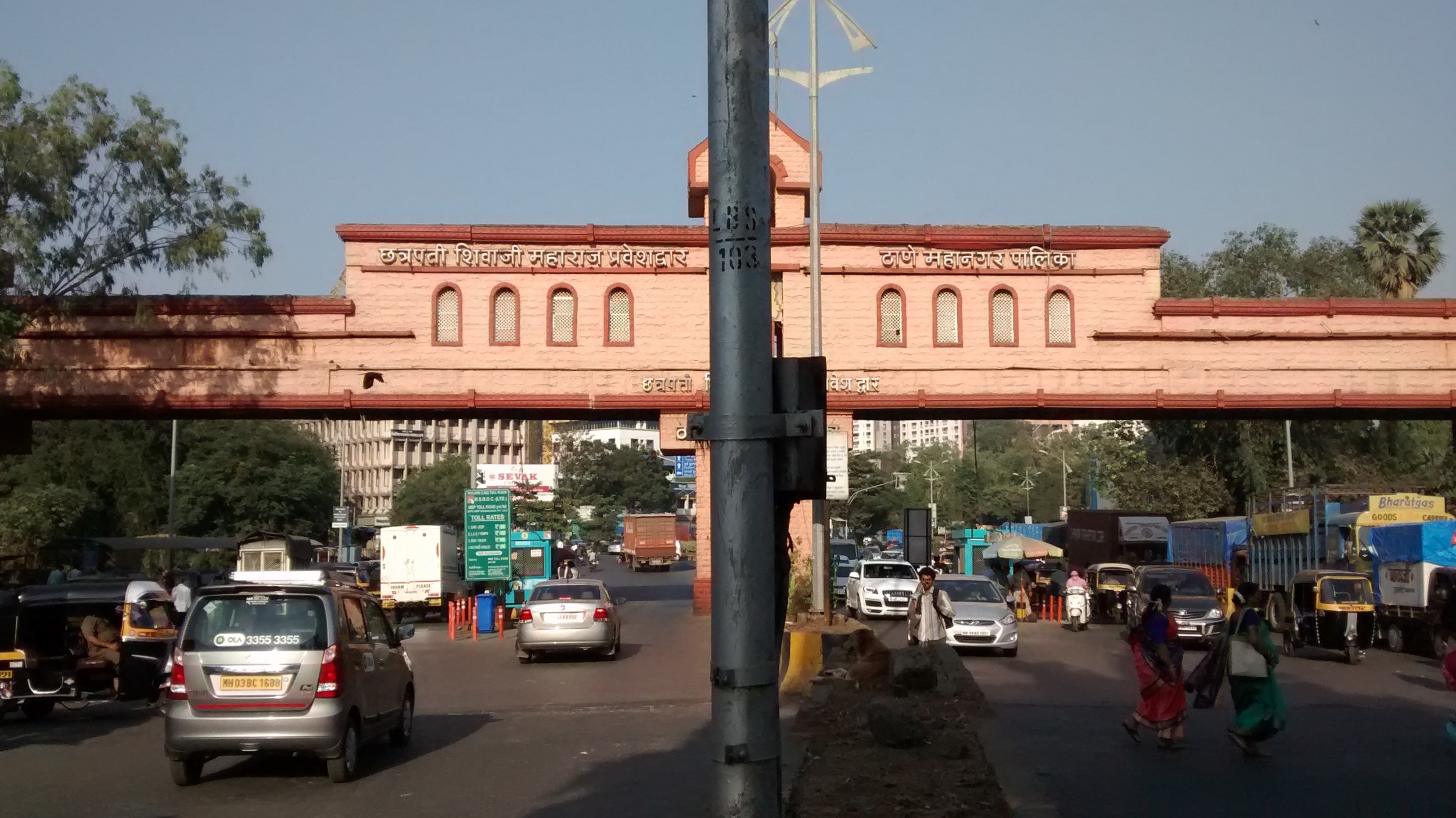 Thane entry gate and Toll Plaza